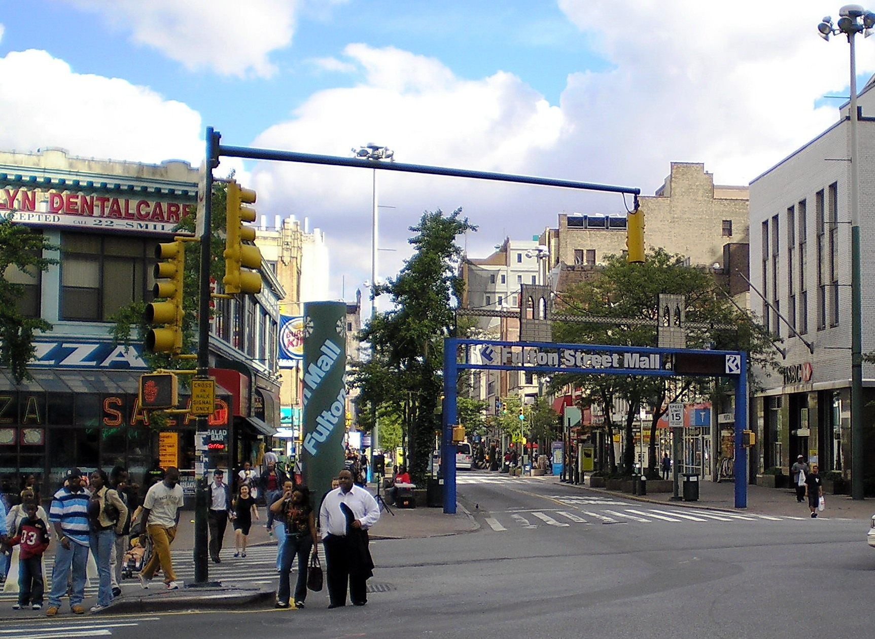 Looking east across Boerum Place at Fulton Street Mall by David Shankbone, Brooklyn.